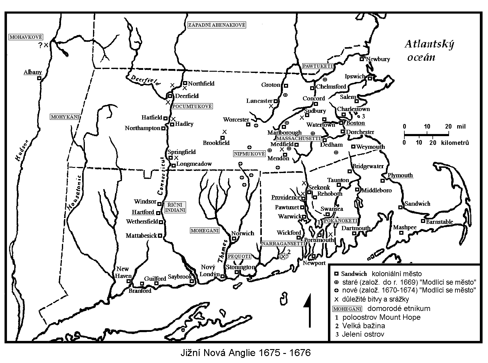 Map of Southern New England during King Philip´s War 1675-1676